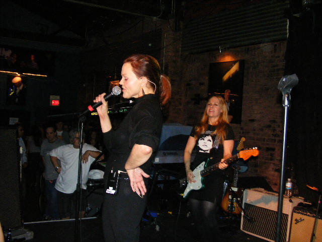 The Go-Go's at Antone's in Austin, TX. Belinda Carlisle (vocals), Charlotte Caffey (lead guitar)